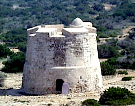 Defense tower of S'Espalmador Island, Formentera, Spain